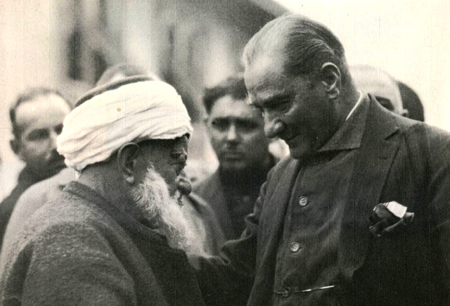 Mustafa Kemal Pasha (later "Atatürk"), the first president of Turkey with Abdurrahman Kamil Efendi, mufti of Amasya. Kemal Atatürk (or alternatively written as Kamâl Atatürk, Mustafa Kemal Pasha until 1934, commonly referred to as Mustafa Kemal Atatürk; 1881 – 10 November 1938) was a Turkish field marshal, revolutionary statesman, author, and the founding father of the Republic of Turkey, serving as its first President from 1923 until his death in 1938. He undertook sweeping progressive reforms, which modernized Turkey into a secular, industrial nation. Ideologically a secularist and nationalist, his policies and theories became known as Kemalism. Due to his military and political accomplishments, Atatürk is regarded as one of the most important political leaders of the 20th century.